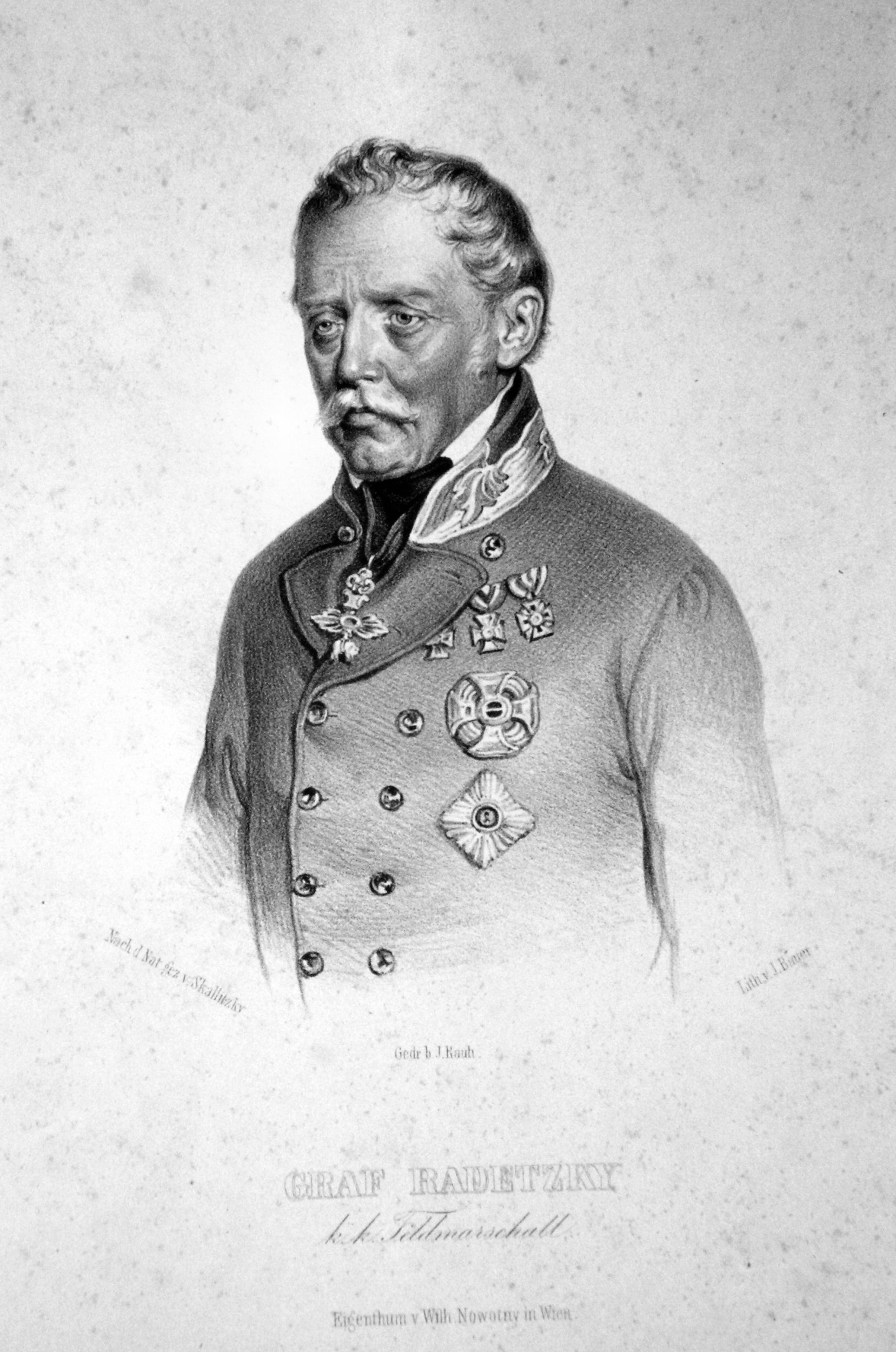 Josef Wenzel Graf Radetzky von Radetz (1766-1858), k. k. Feldmarschall. Lithographie von Josef Anton Bauer nach einer Zeichnung von Skalitzky, um 1850